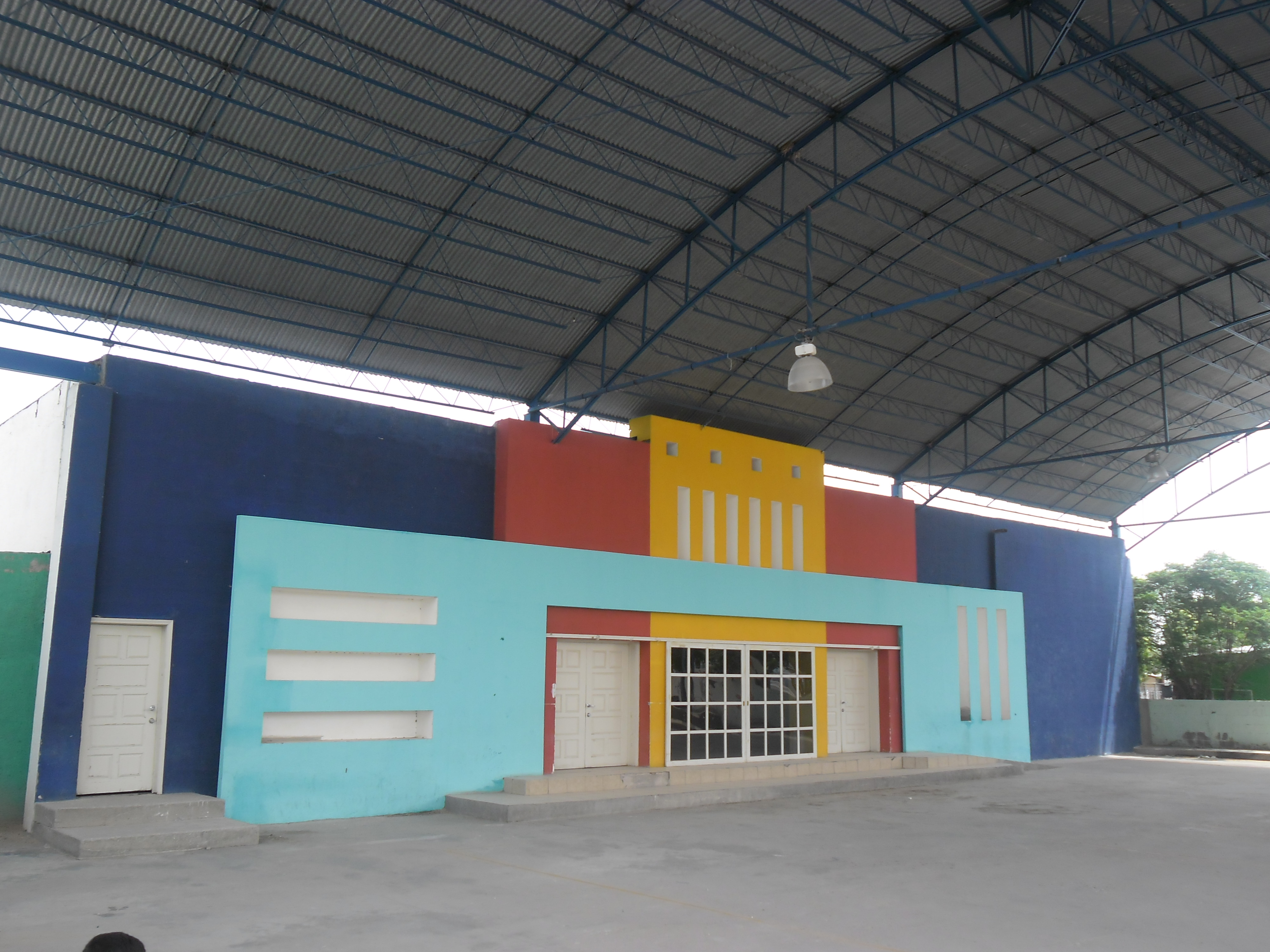 SALON